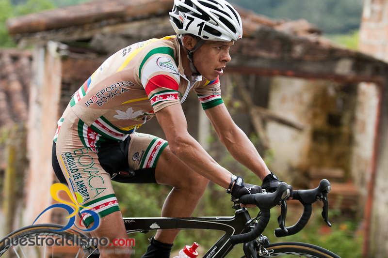 Freddy montaña, colombian cyclist of the team Boyacá Orgullo de América, in the 2011 Vuelta a Antioquia